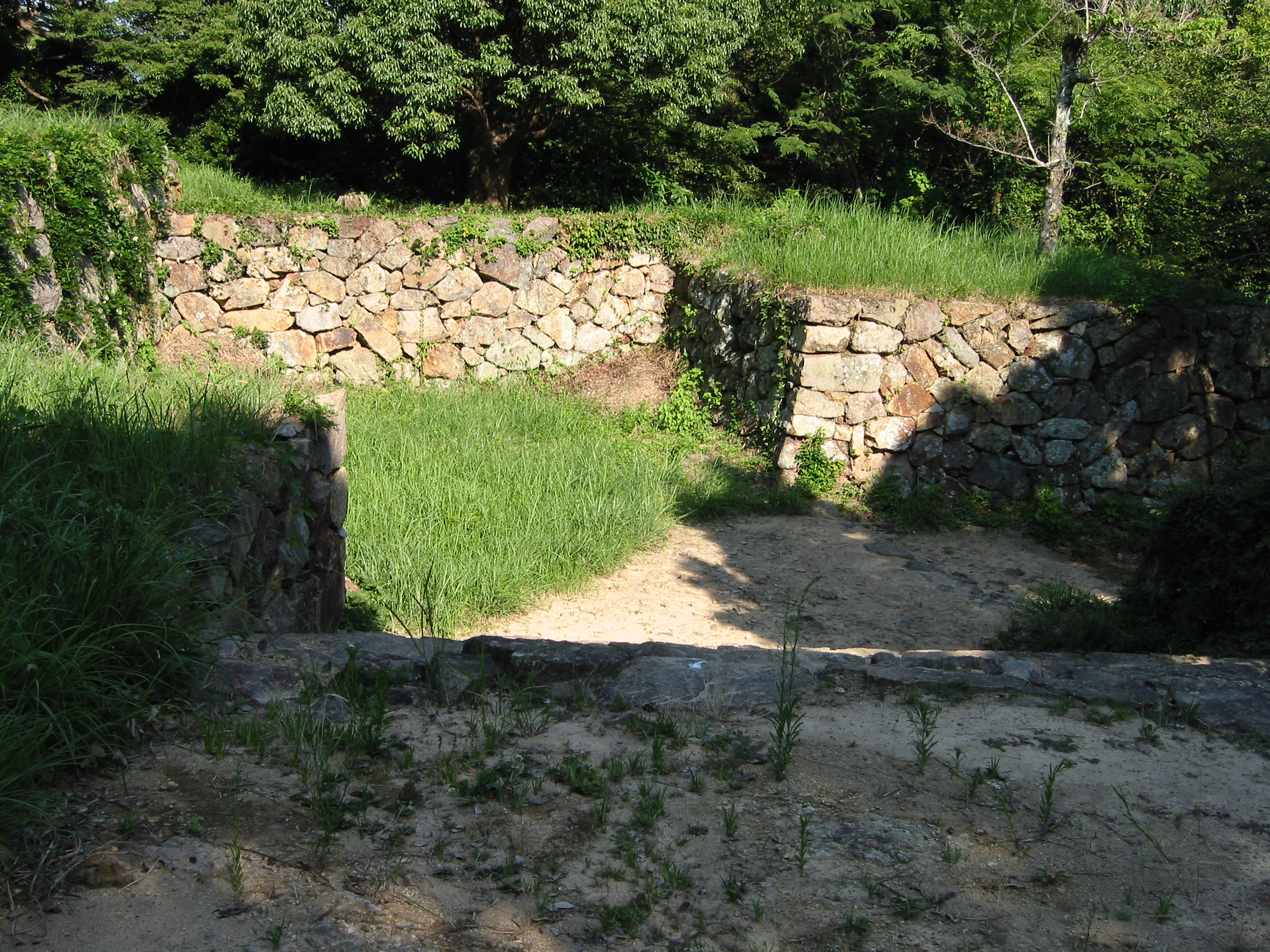 photo of Hamada Castle a site of Secondgate(Ni-no-mon)